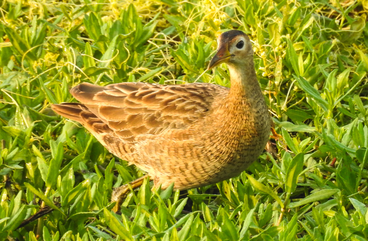 Kora, Gallicrex cinerea, Mysore,Karnataka